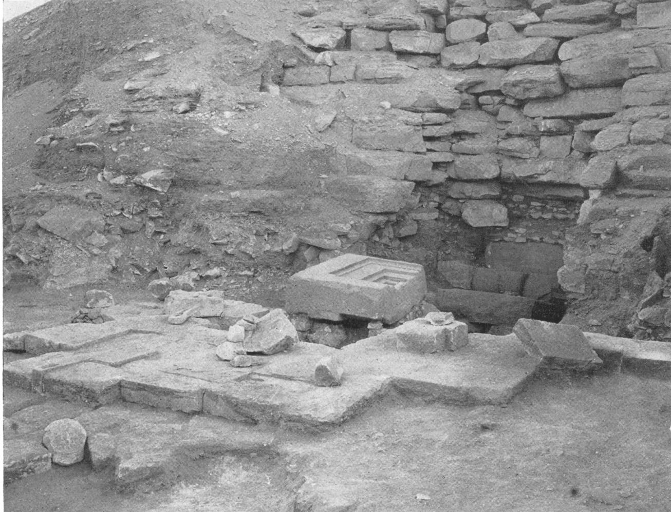 Entrance of the Pyramid of Amenemhat I